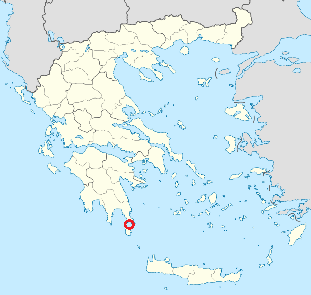 Location map of Greece Equirectangular projection, N/S stretching 120 %. Geographic limits of the map: * N: 42.0° N * S: 34.6° N * W: 19.1° E * O: 29.9° E